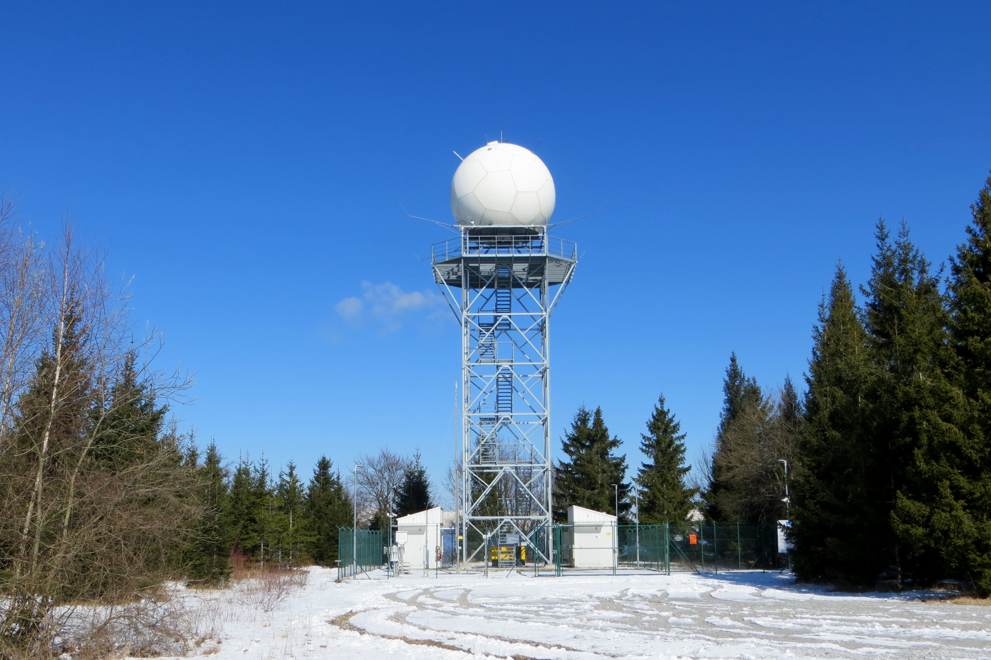 Weather radar at Pasja Ravan in Bukov Vrh nad Visokim, Municipality of Škofja Loka, Slovenia